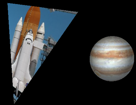 Example of UV mapping using a still of Image:PIA02863_-_Jupiter_surface_motion_animation.gif and Image:06pd2058.jpg. For the triangle, three UV coördinates were specified for the vertices and the UV coördinates for the sphere were calculated using spherical mapping.